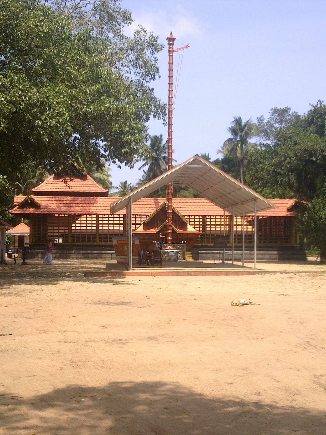 Changamkulangara Mahadeva Temple, Ochira, Kollam